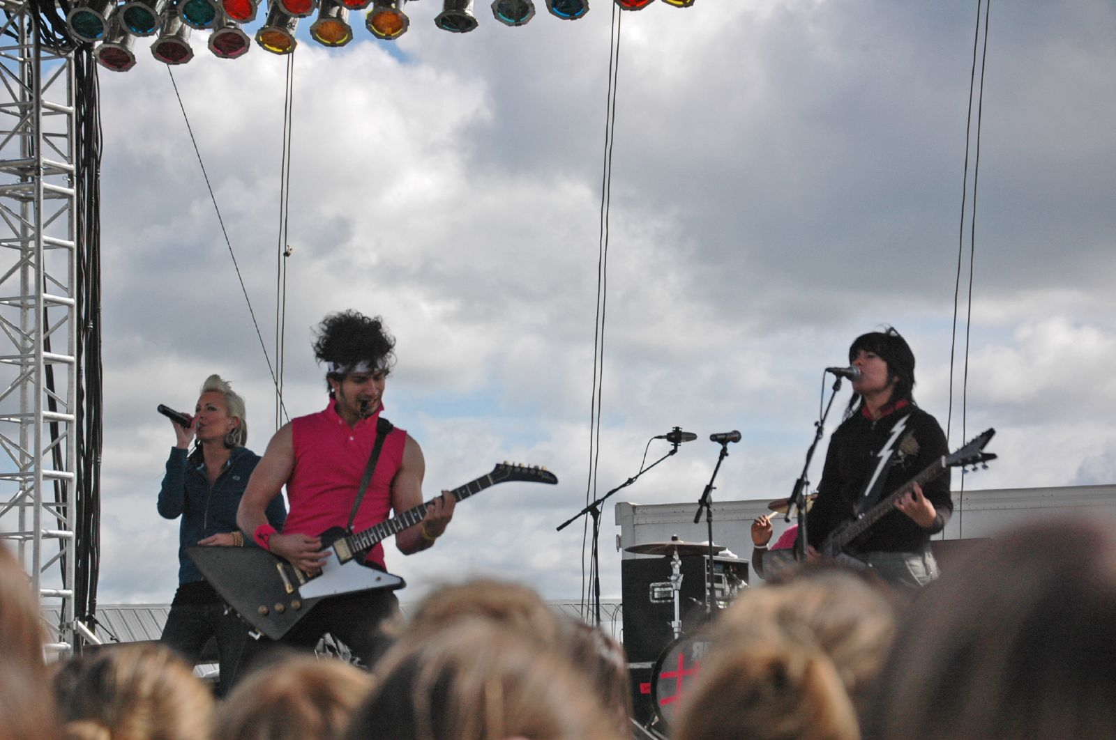 Contemporary Christian band Superchick in concert